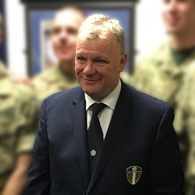 Steve Evans whilst Head Coach at Leeds United